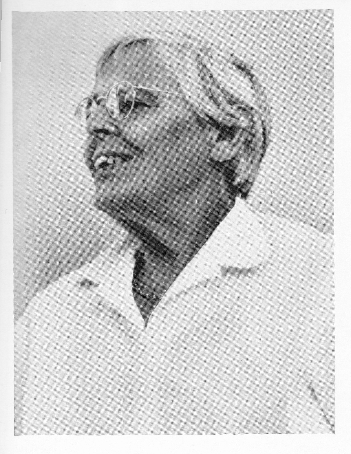 Dr. Rut Keiser, headmaster of the Basle girls' college 1970